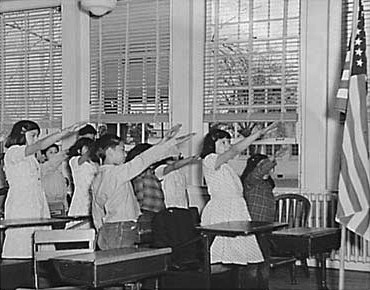 American schoolchildren pledging allegiance to the flag in a former form of the salute, specifically the Bellamy salute.